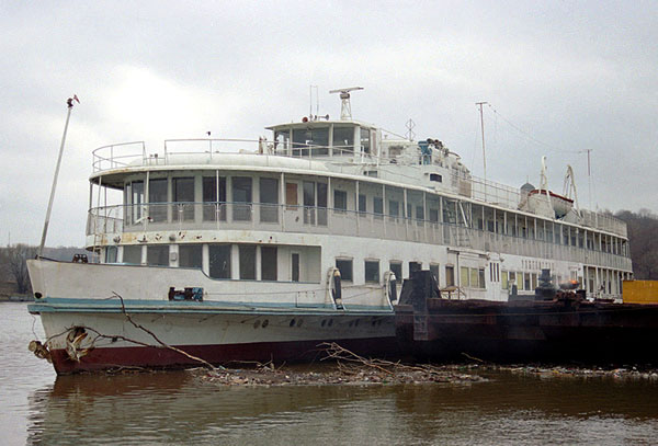 Uzbekistan Project 785 Moscow 2004